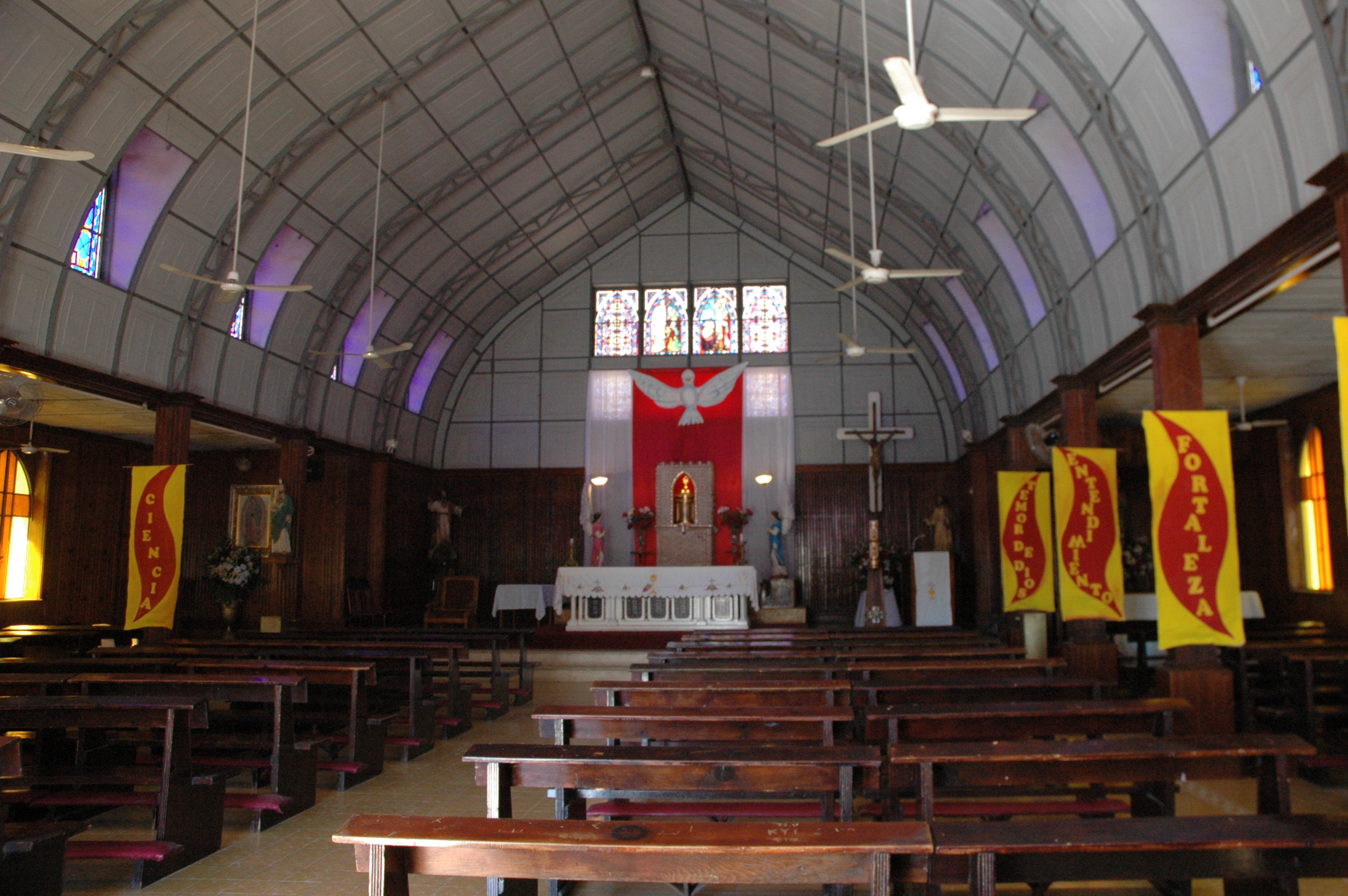 Saint Barbara Church in Santa Rosalia, Baja California Sur, Mexico - Interior - Pentecost Feast.